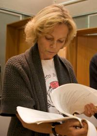 Image of actress Jenny Seagrove (born 4 July 1957)